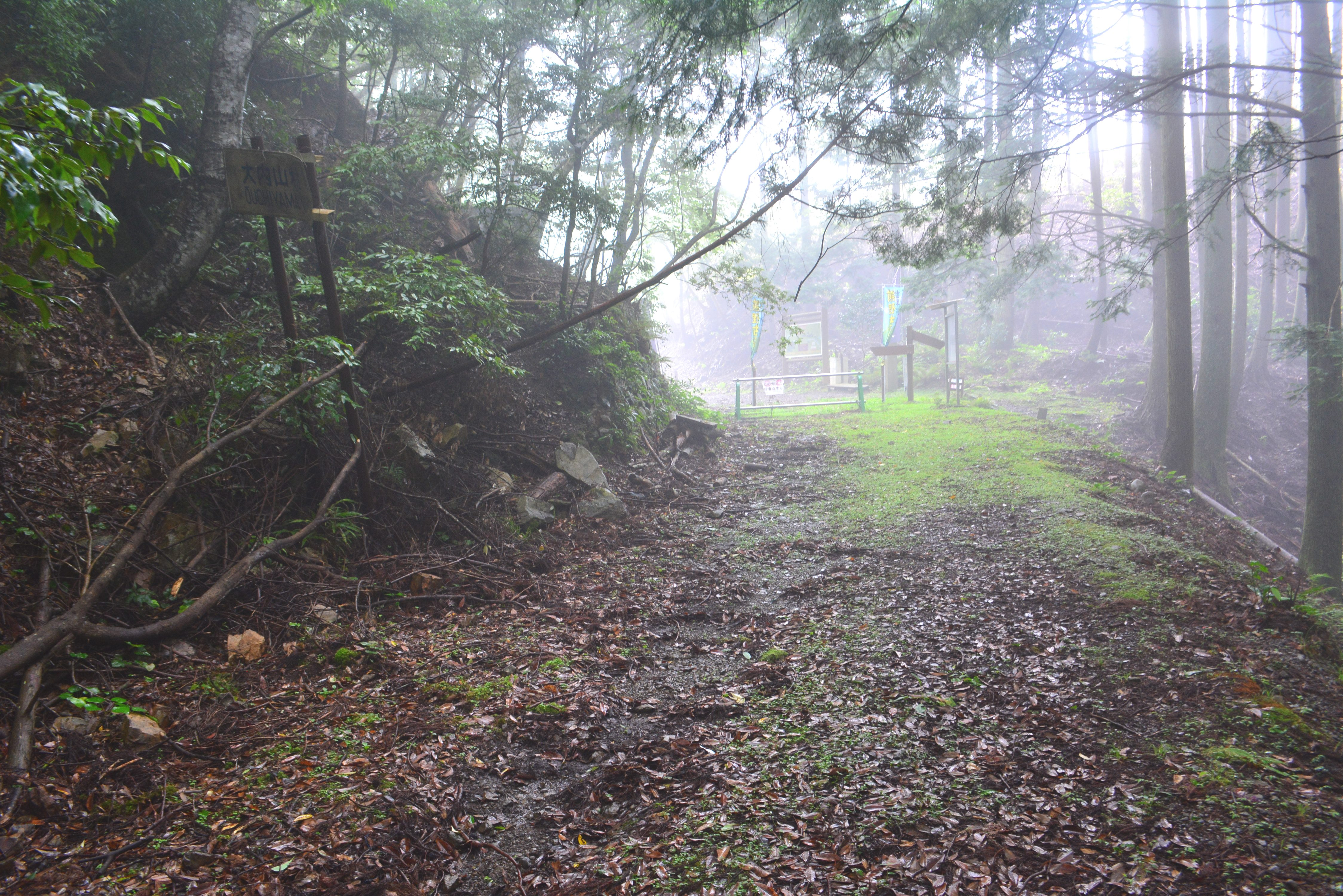 Nisaka pass,Taiki town,Kihoku town,Japan